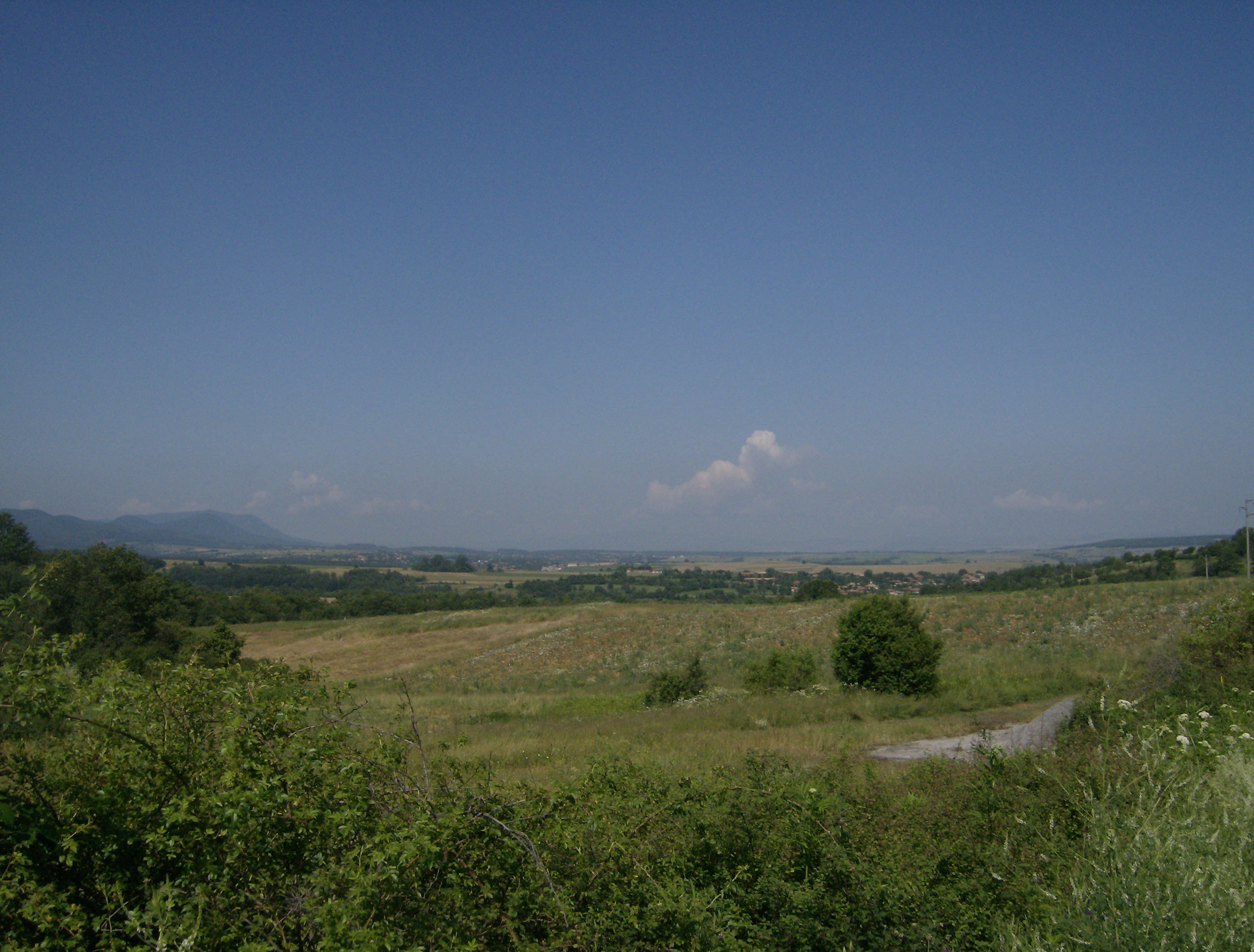 Gerlovo